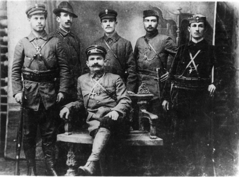 Vasilos Papakostas greek andart